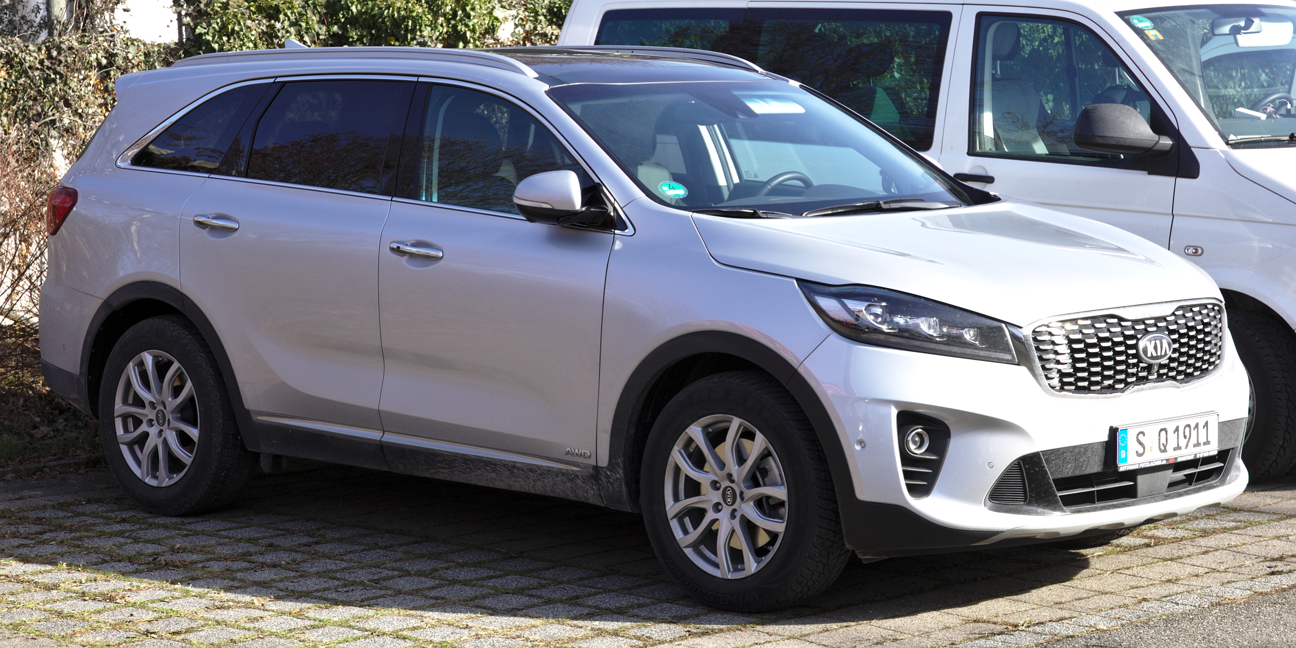 Kia Sorento (Facelift) at Autosalon Filderstadt 2019